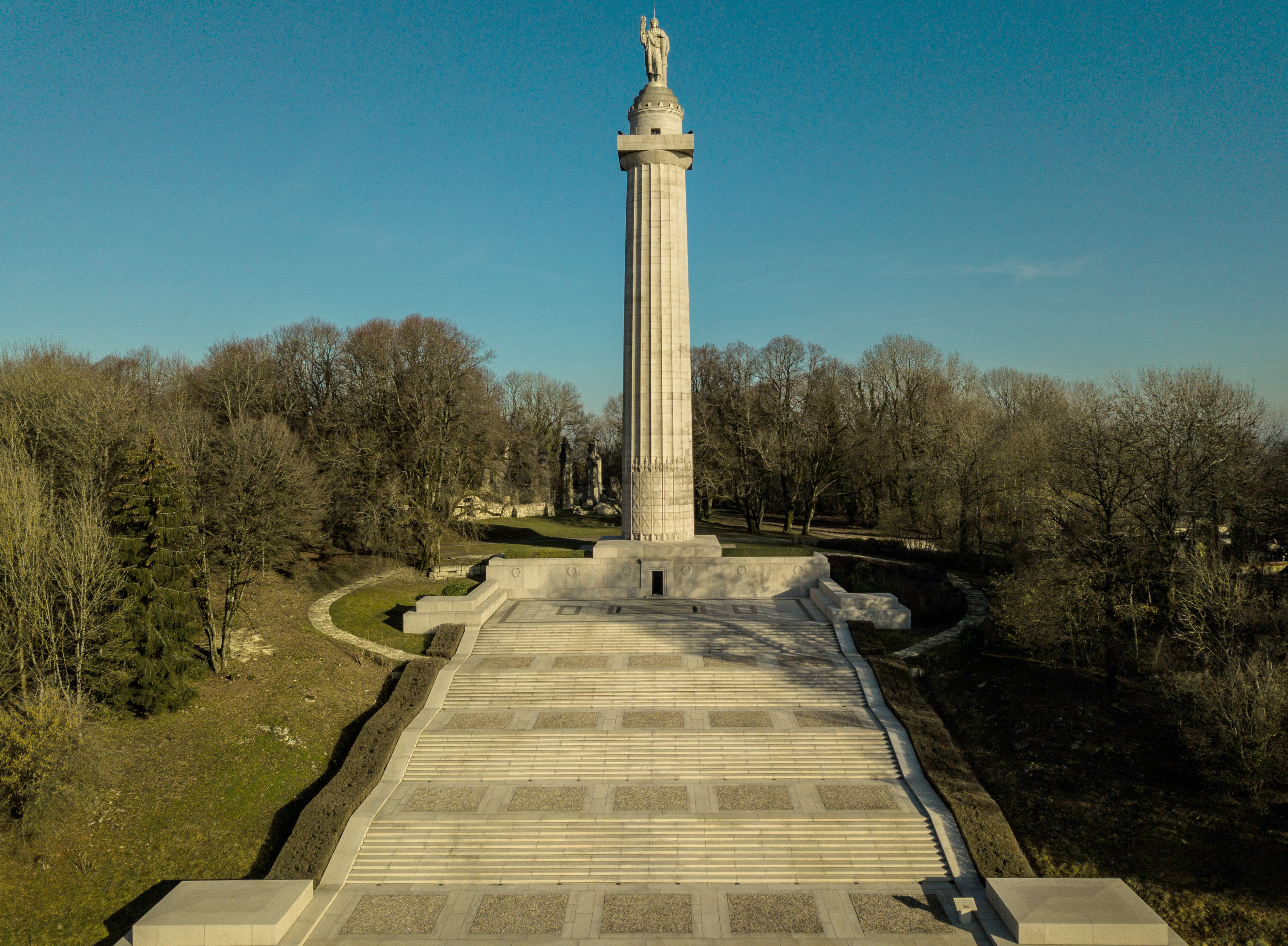 Meuse-Argonne American Memorial, Montfaucon d'Argonne (drone-picture).